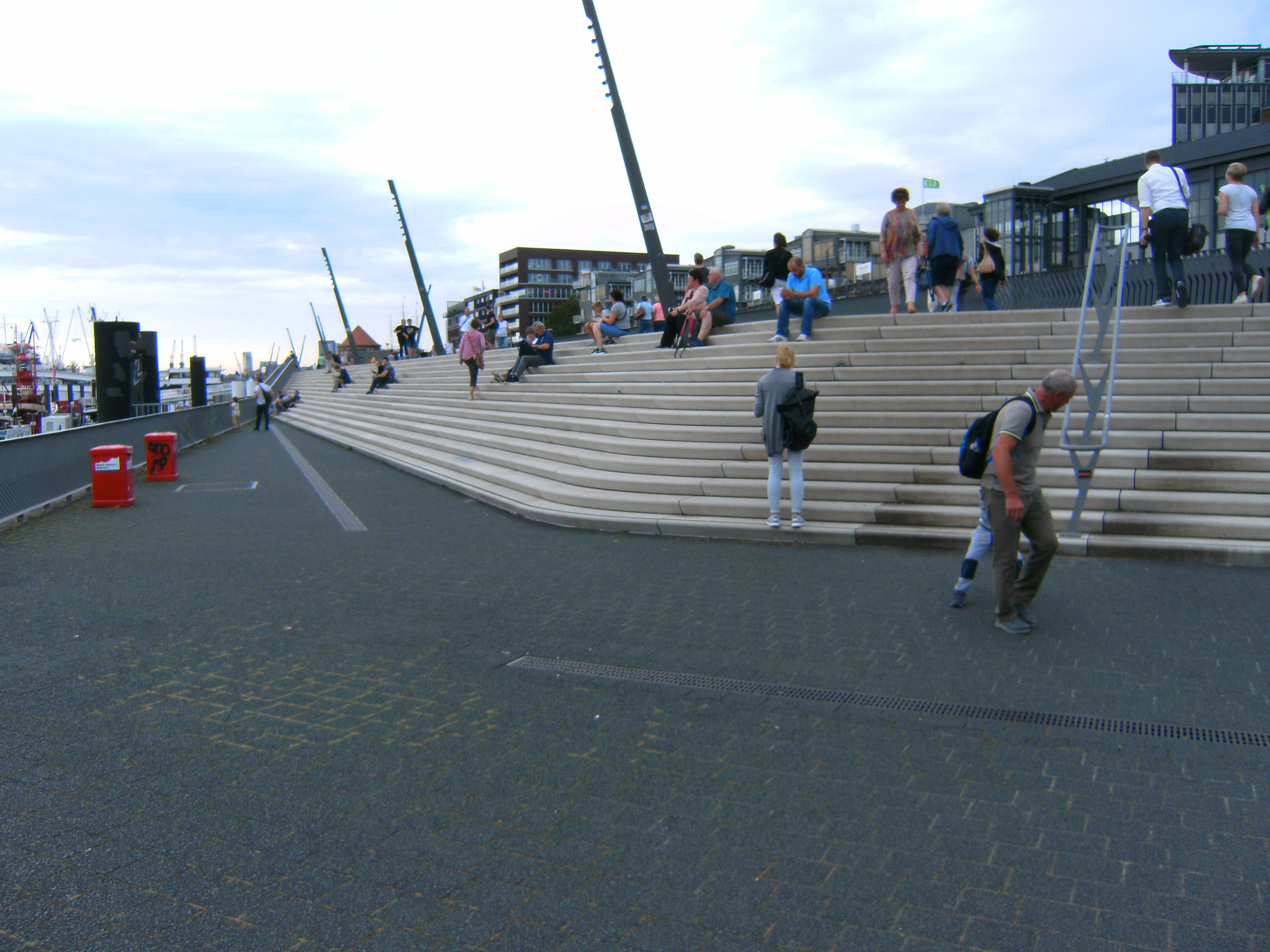 Hamburg, Germany, street Vorsetzen: Flood protectio and promenade at Niederhafen (port), completion in 2019. Planned by Zaha Hadid